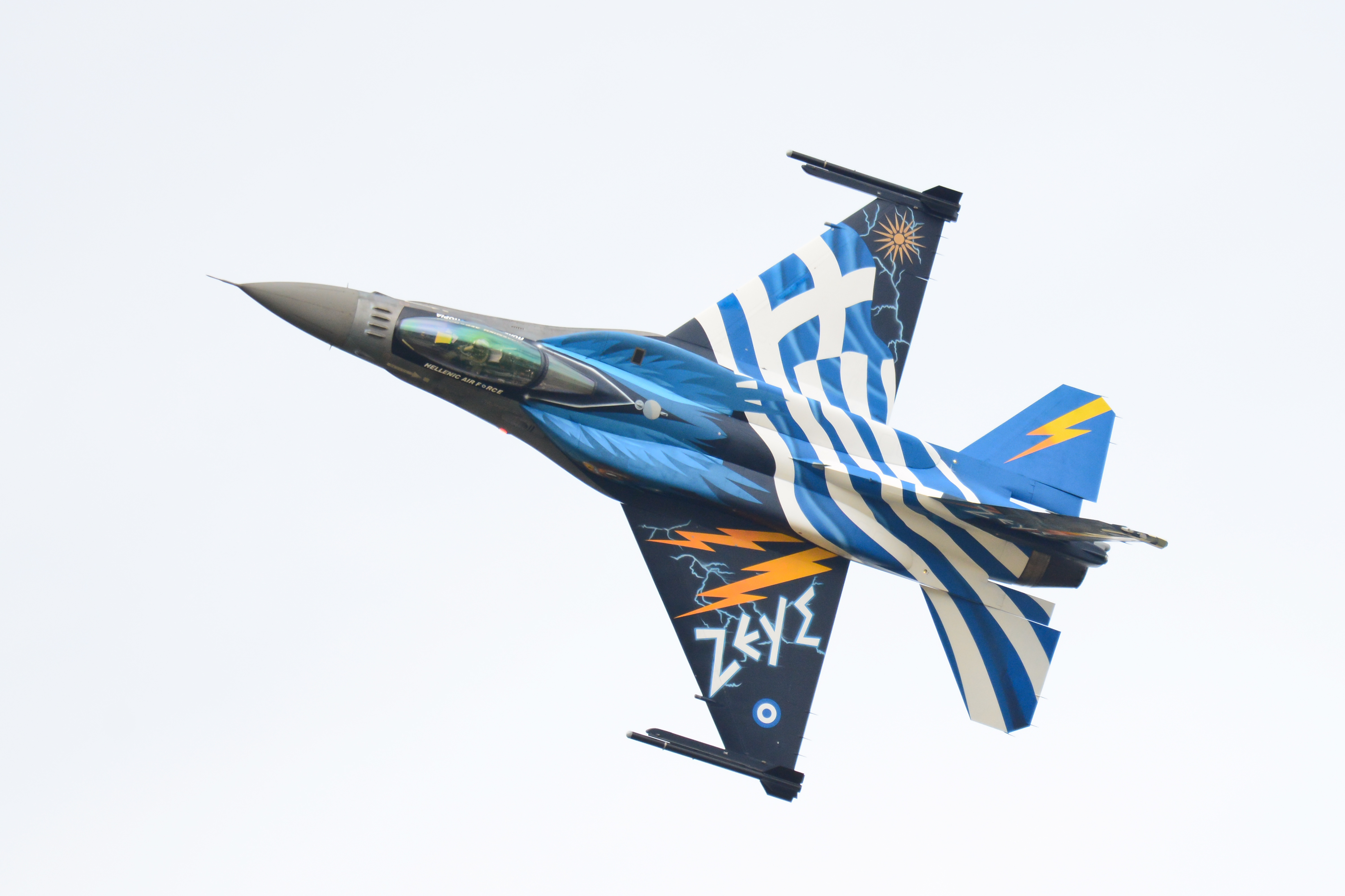 Greek Air Force F16 Zeus